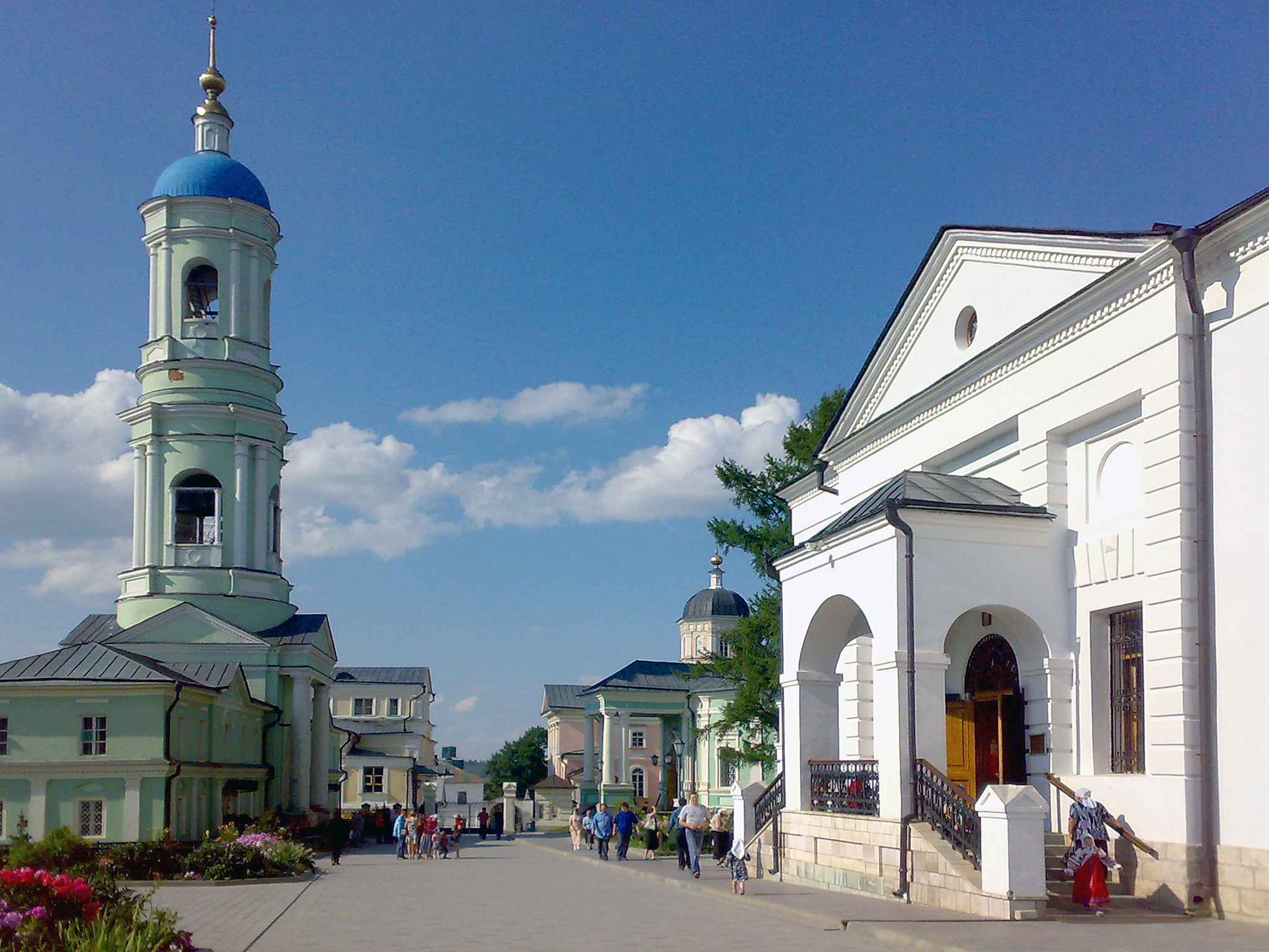 Optina Pustyn' Monastery, Kaluga Region, Russia, 2008.